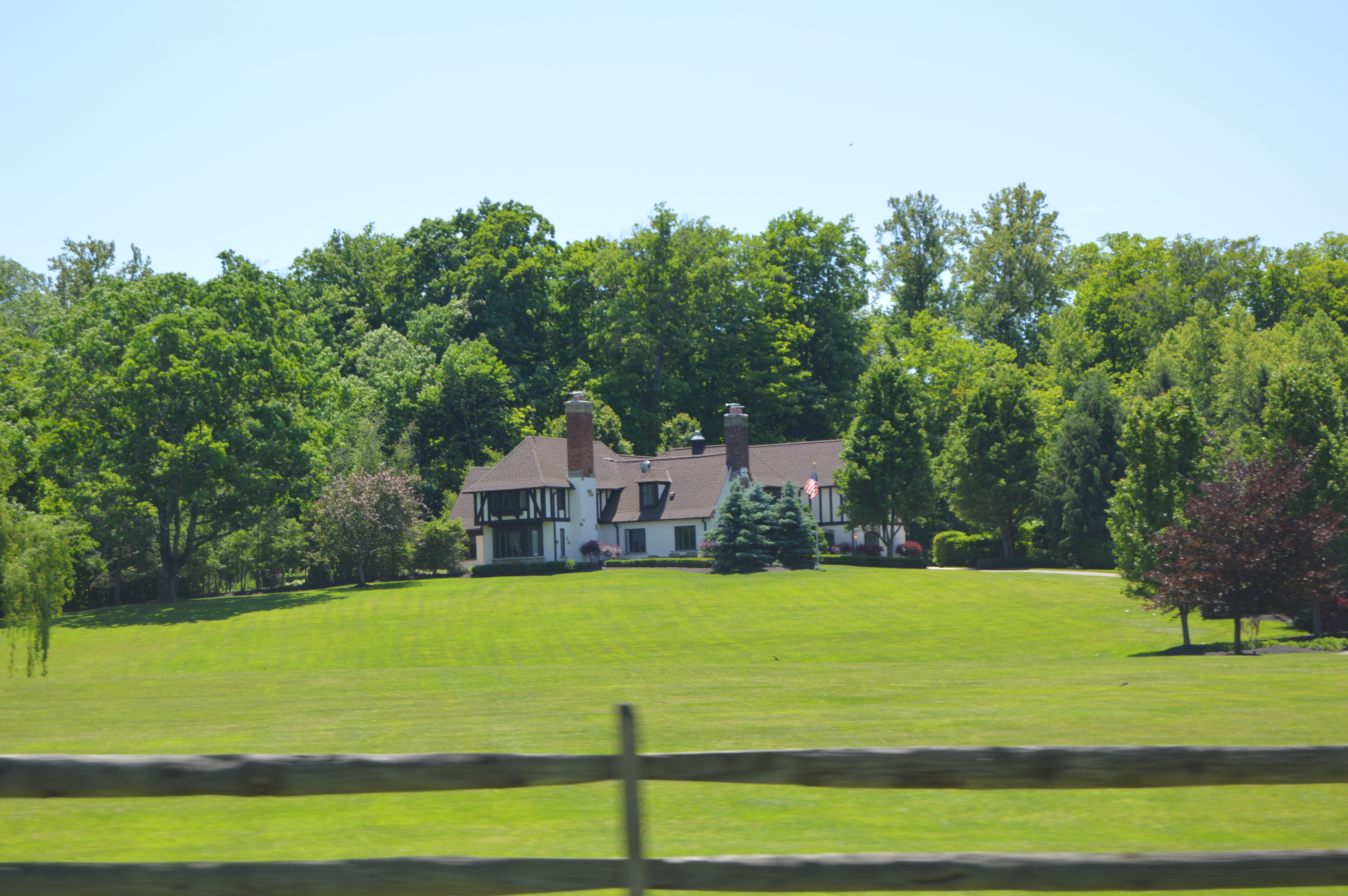 Roadside view of the great house at the Leonard C. Hanna, Jr., Estate, located on Little Mountain Road in Kirtland Hills, Ohio, United States. Built in 1924, it is listed on the National Register of Historic Places.